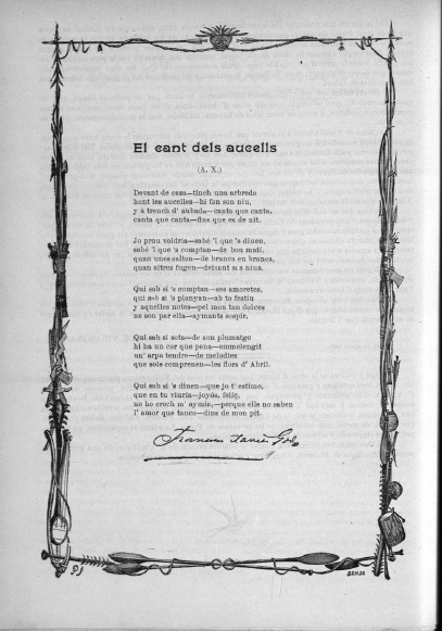 L'Atlàntida- Poema d' El cant del Ucells, en #15